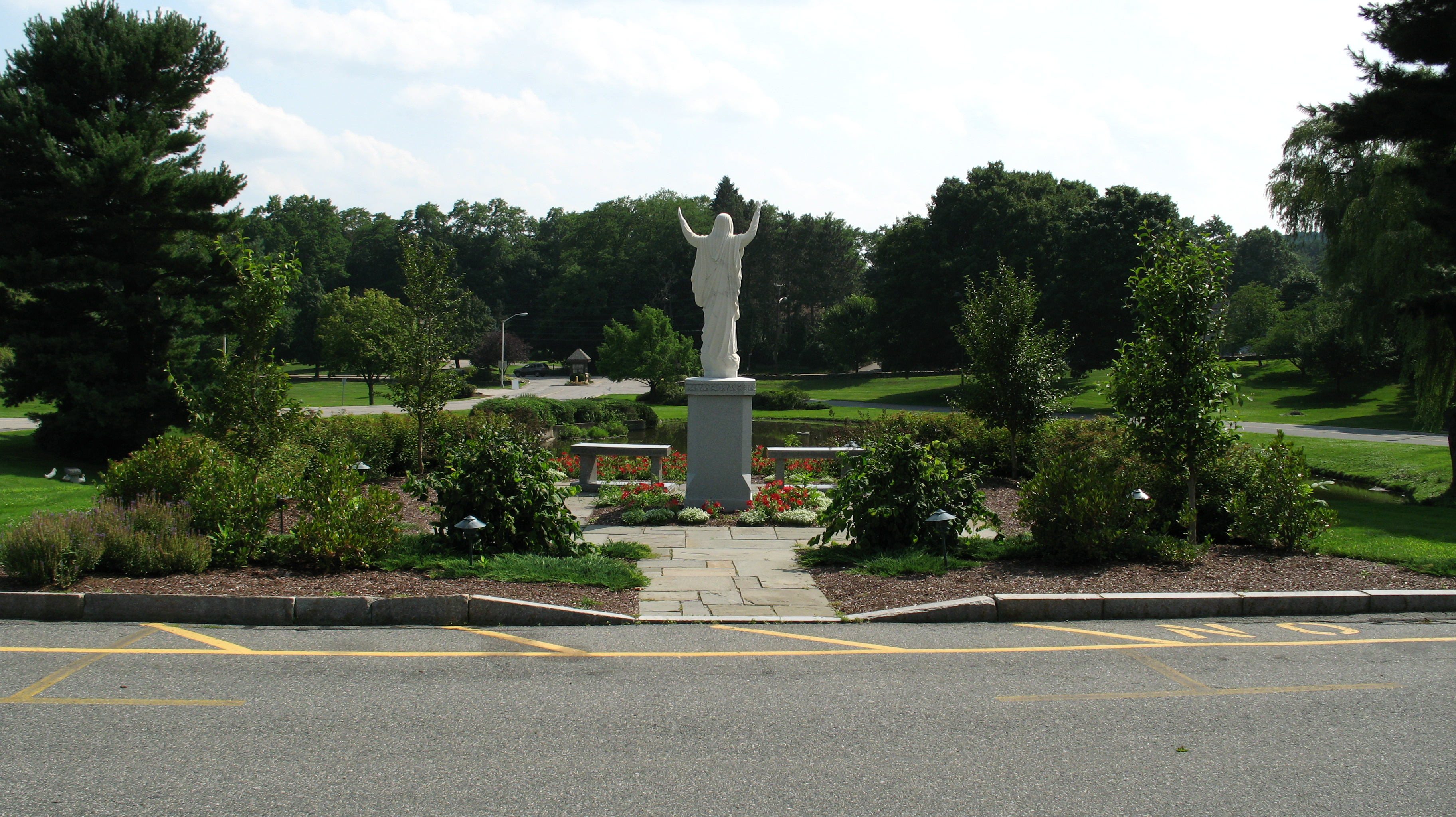 A photo of Assumption College, in Worcester, Massachusetts, facing the pond from the La Maison-Francais building. This is the entry point to Assumption College.